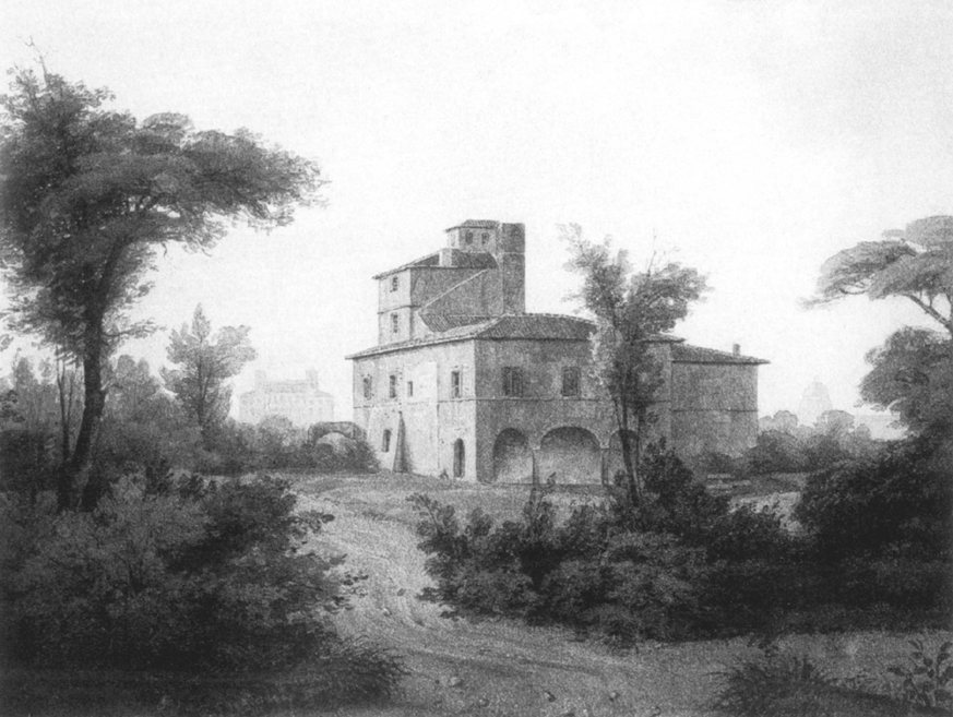 Villa near Rome with an palace and Saint Peter's Basilica behind.